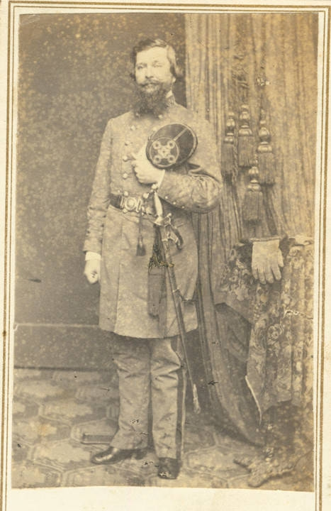 Zachariah Cantey Deas, CSA in military uniform